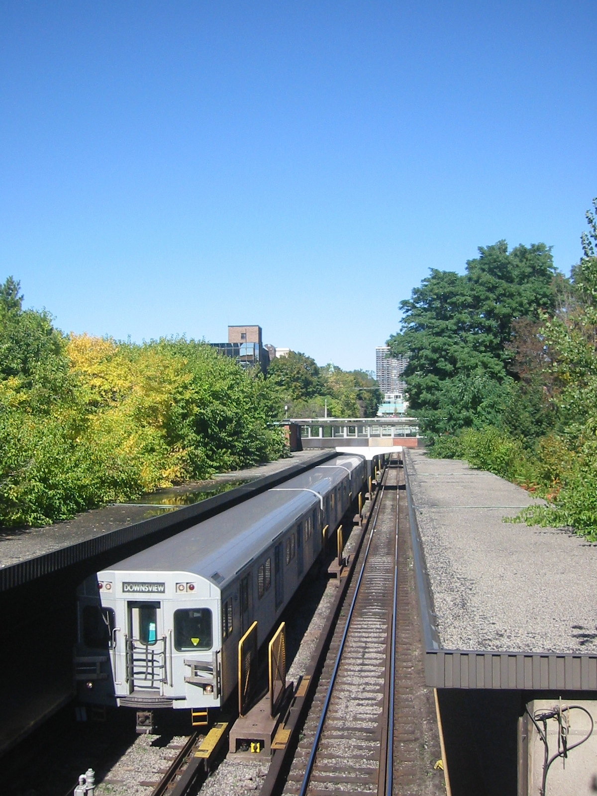 Southbound train at Rosedale subway station in Toronto.